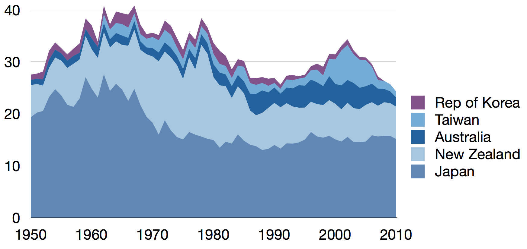 Global capture of wild silver seabream, Pagrus auratus, in thousand tonnes, 1950–2010, as reported by the FAO. Based on data sourced from the FishStat database